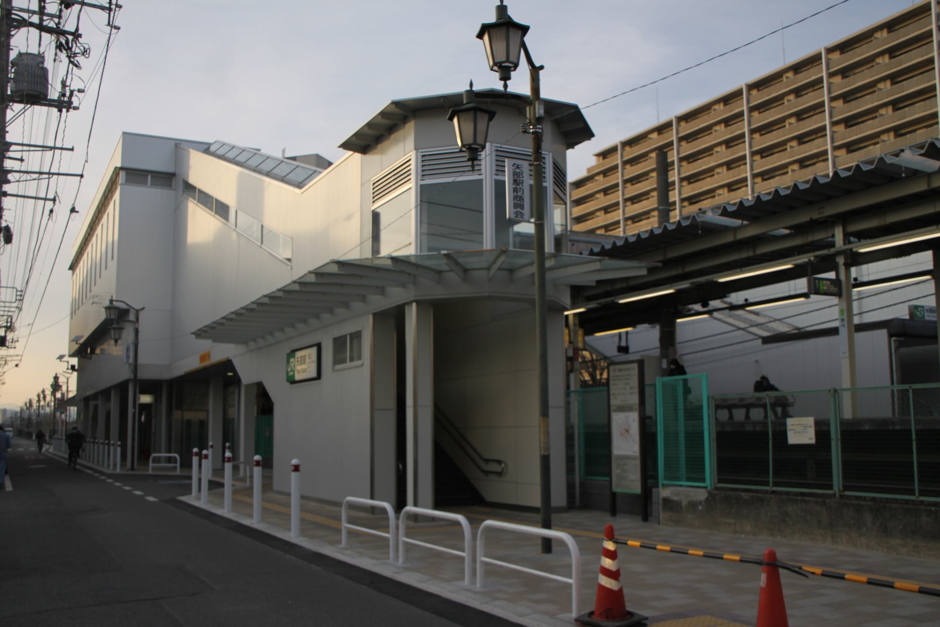 Yabe Station of JR East in Kanagawa perfecture